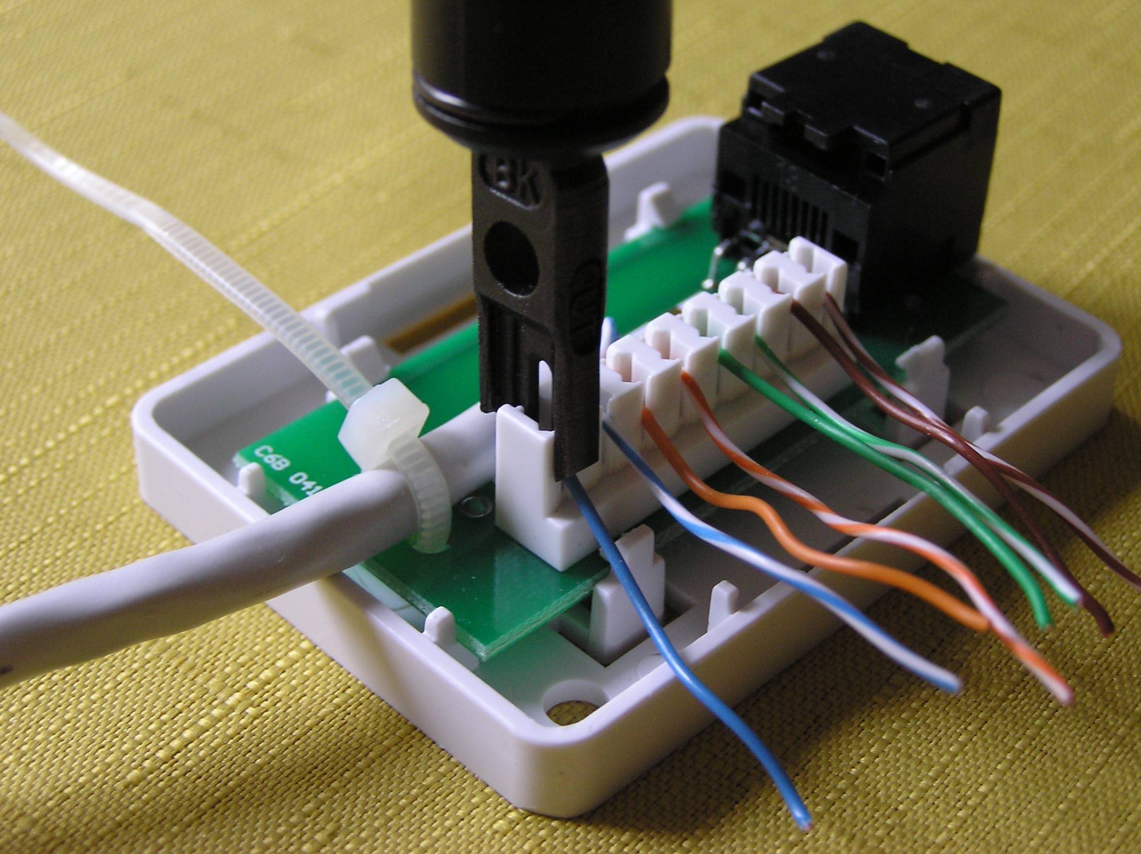 Using impact tool - detail.